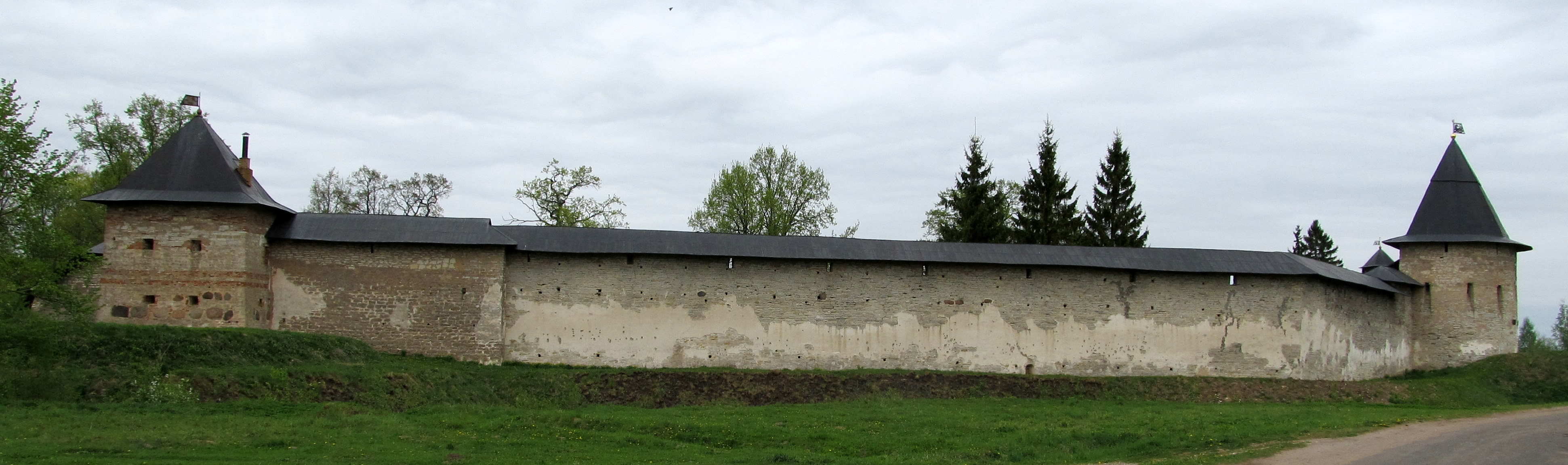 Wall of the Monastery of Pechory